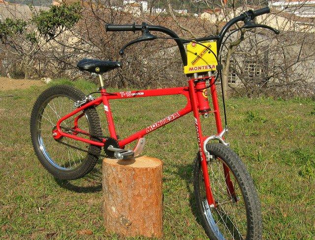 A Montesita T-15 from 1981